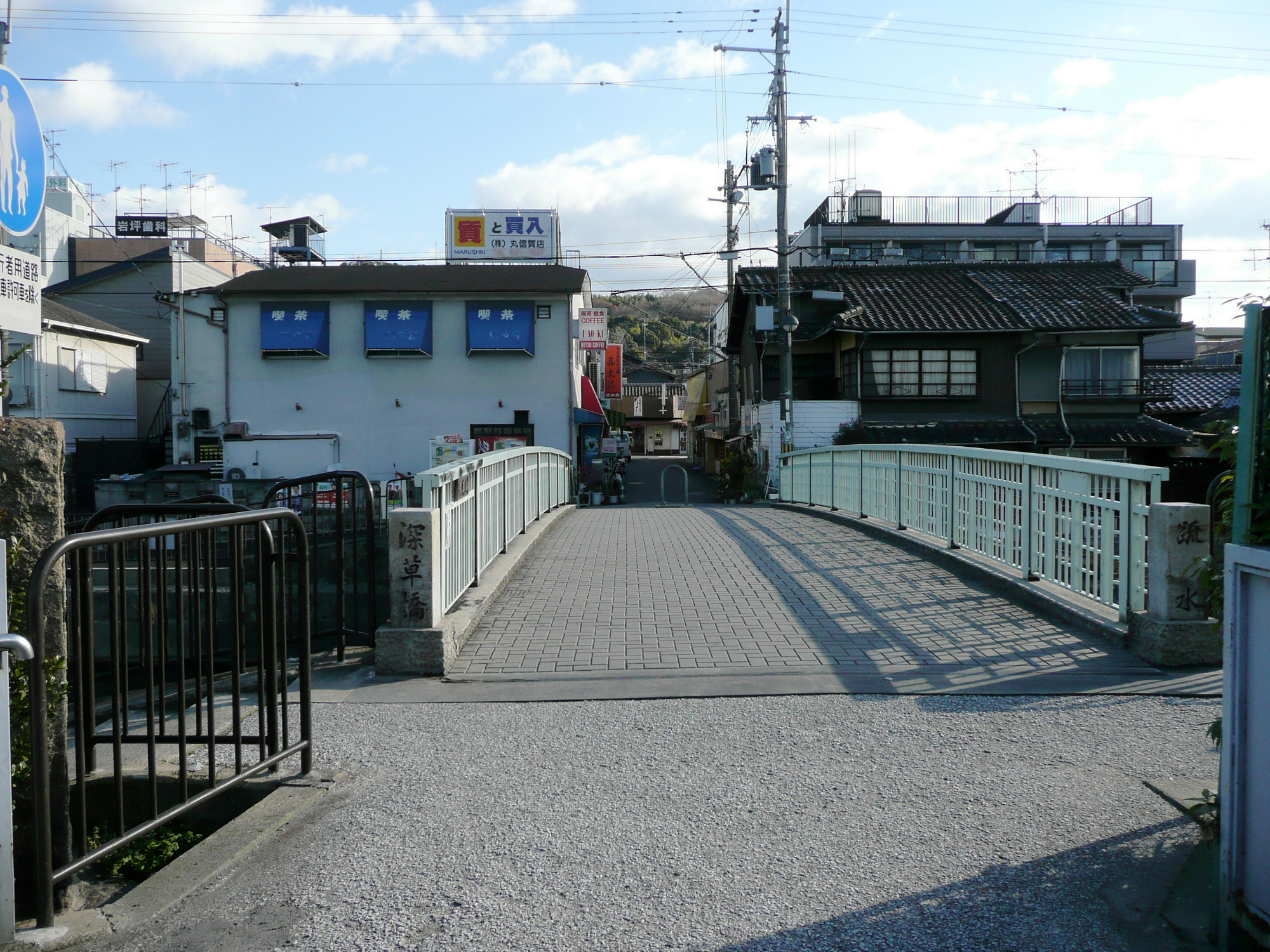 Keihan Electric Railway,Keihan Main Line,Fukakusa Station east. / 京阪線深草駅東口前風景